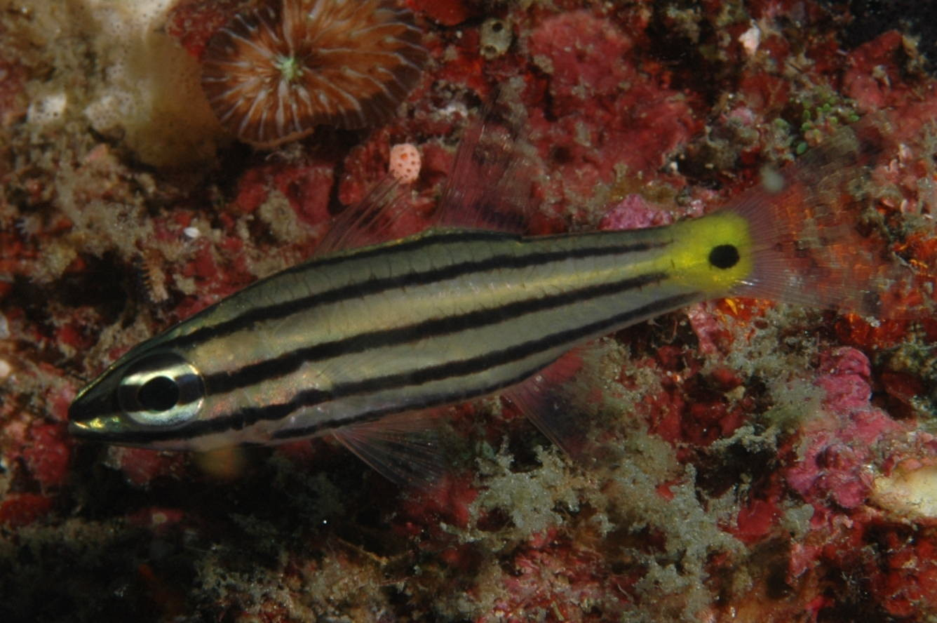 Five-lined cardinalfish (Cheilodipterus quinquelineatus)